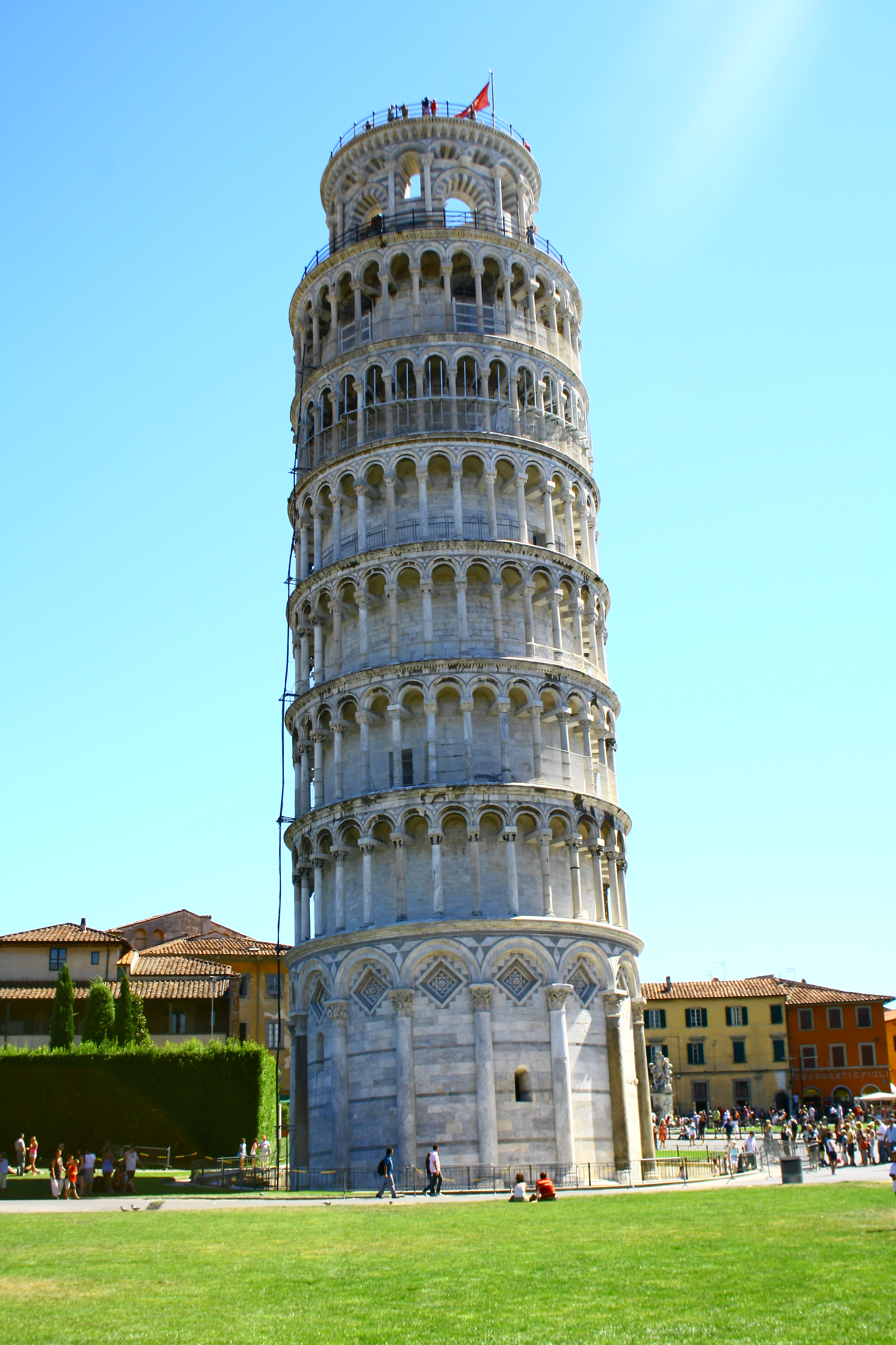 Leaning Tower of Pisa in Pisa, Italy